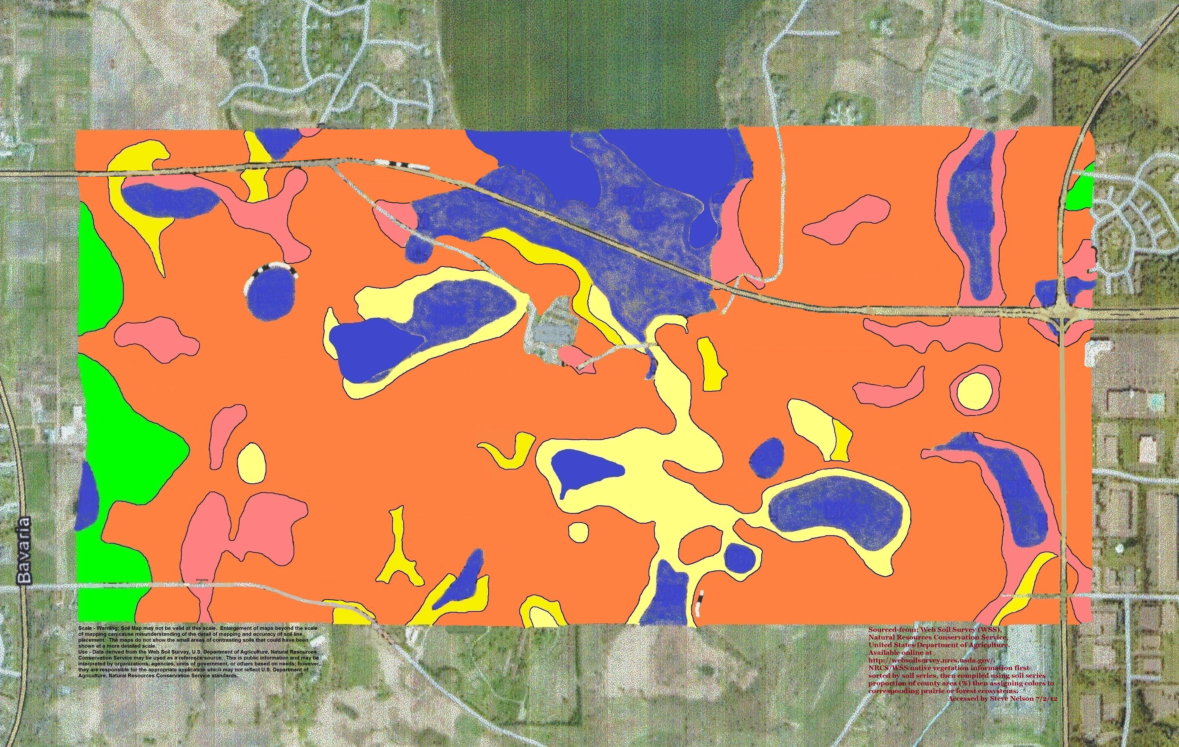 Colored map shows soils of Minnesota Landscape Arboretum area near Chanhassen Minnesota.